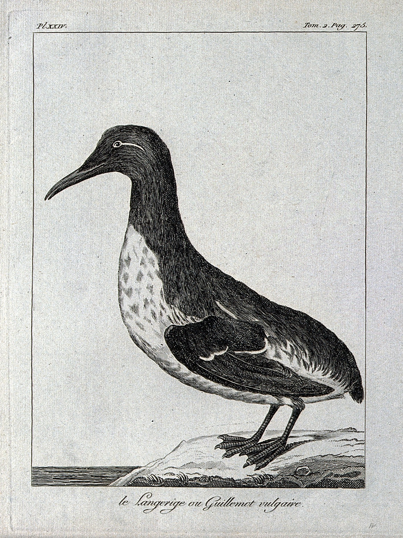 A common guillemot. Etching. Iconographic Collections